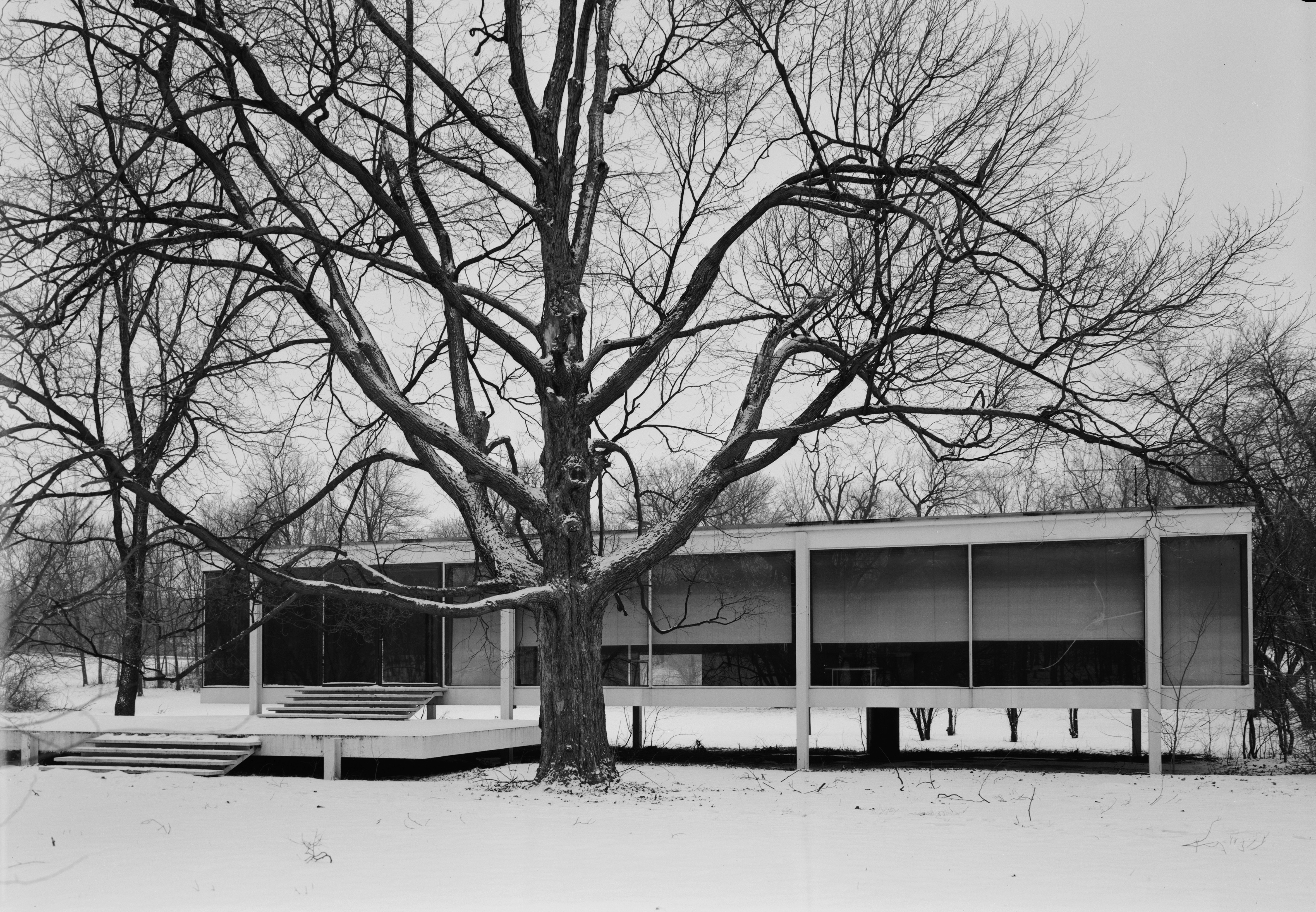 Edith Farnsworth House, Fox River & Milbrook Roads, Plano vicinity, Kendall County, Illinois - south elevation. Designed by Ludwig Mies van der Rohe